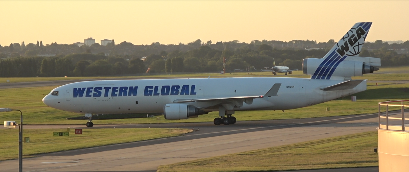 Western Global Airlines, McDonnell Douglas MD-11F (reg: N412SN) at Birminghan Airport